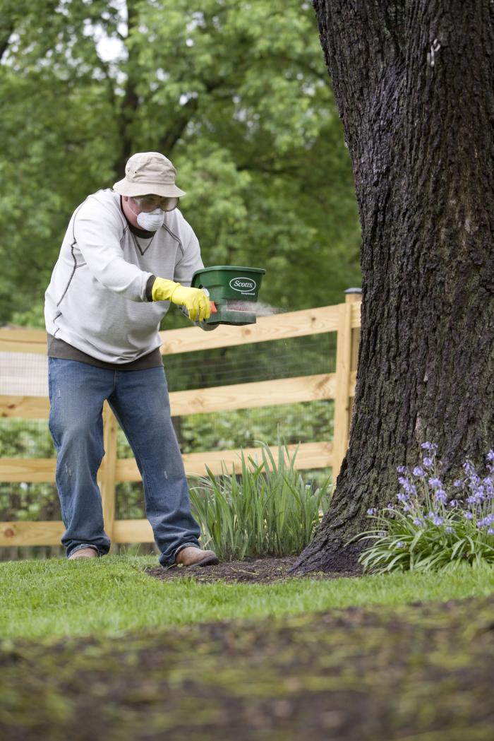 *ID#: 11496 Description: In so many ways, gardening is a very beneficial activity, not only for the environment, but for those who partake in this exercise. This man was in the process of applying fertilizer to the base of one of his hardwood trees after having properly read the instructions. Though a very positive activity, gardening exposes the gardener to a number of possible bodily injuries, therefore, using personal protective equipment is always recommended. In this case, this man was wearing gloves, goggles, and a facial respirator, all of which helped to protect him against eye and skin exposure, and pesticide inhalation. He was also wearing jeans that would protect one against the harmful effects of the sun’s rays, abrasions, and insect bites. It’s recommended that sunscreen be applied to skin exposed to the sun, and that a hat, be worn, depending upon a number of activity variables, High Resolution: Right click here and select "Save Target As..." for hi-resolution image (33.60 MB) Content Providers(s): CDC/ Dawn Arlotta Creation Date: 2009 Photo Credit: Cade Martin Links: Agency for Toxic Substances and Disease Registry (ATSDR); Homepage Agency for Toxic Substances and Disease Registry (ATSDR) Public Health Advisories Categories: CDC Organization Copyright Restrictions: None - This image is in the public domain and thus free of any copyright restrictions. As a matter of courtesy we request that the content provider be credited and notified in any public or private usage of this image.